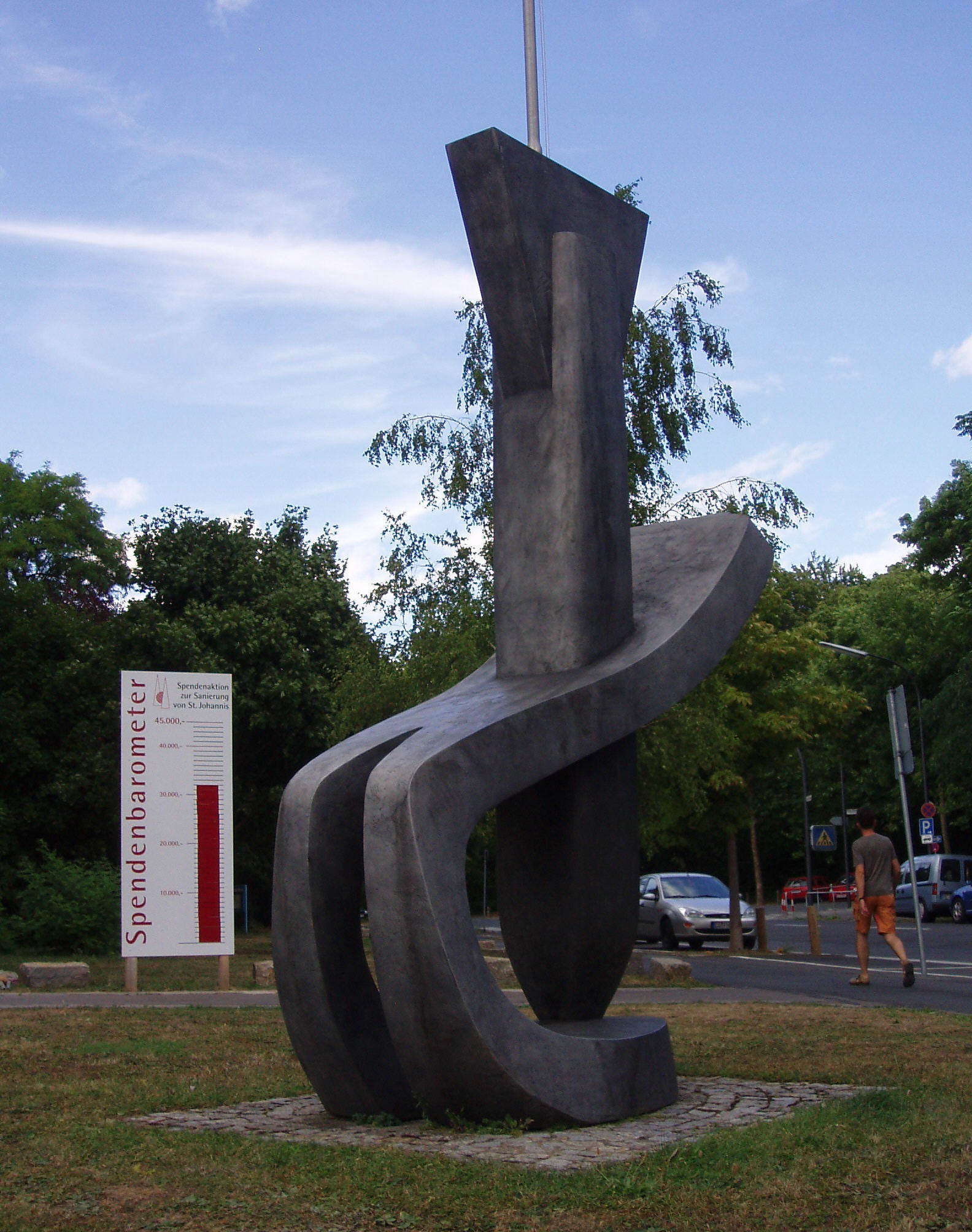 Tod durch Bomben by Vadim Sidur